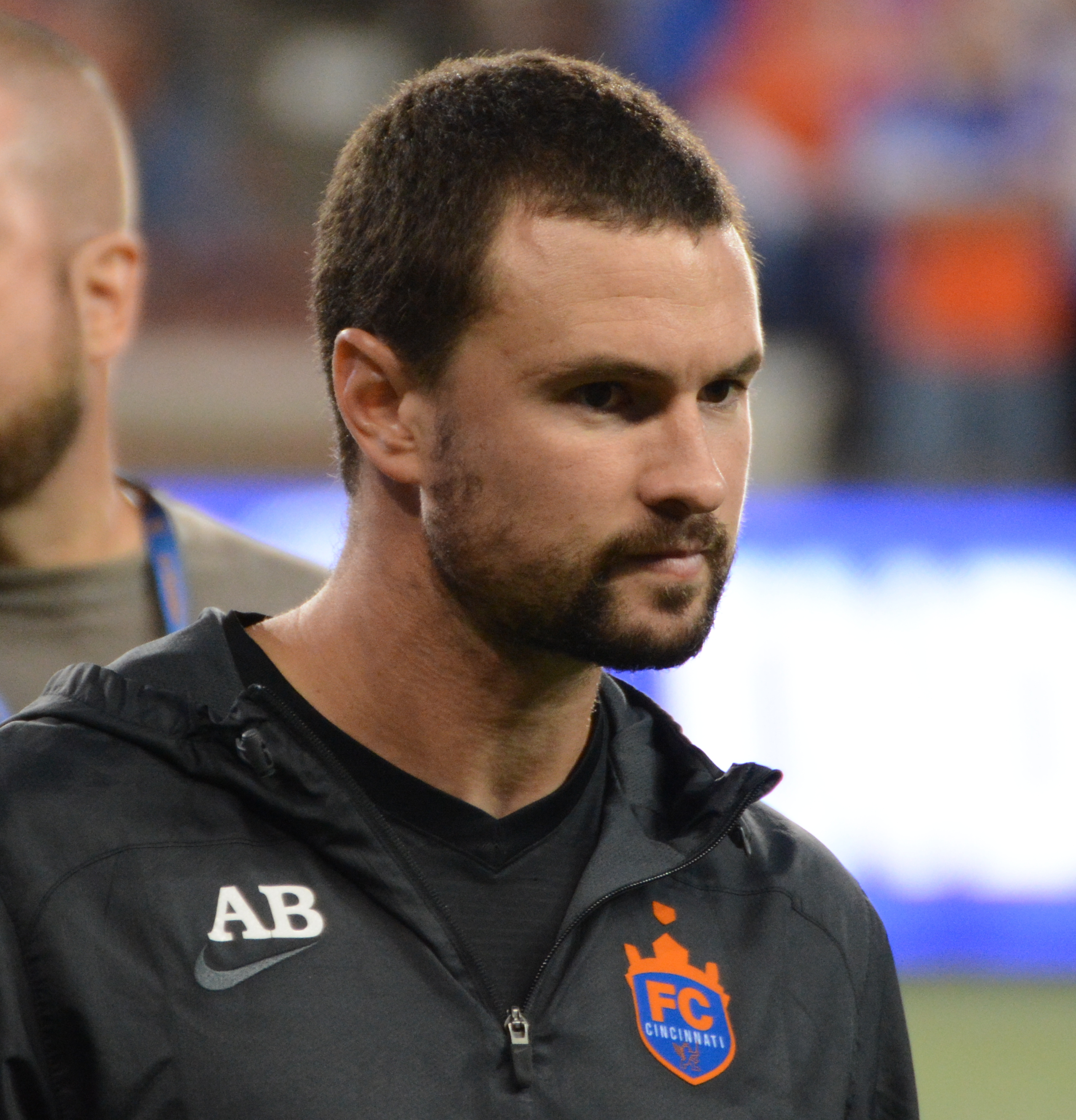 Taken during a USL regular season match between FC Cincinnati and Indy Eleven at Nippert Stadium in Cincinnati, USA on September 29, 2018.